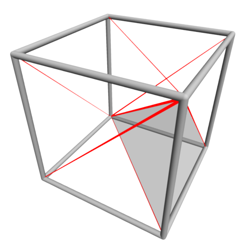 diagram of the division of the cube into six tetrahedrons for the marching tetrahedrons algorithm